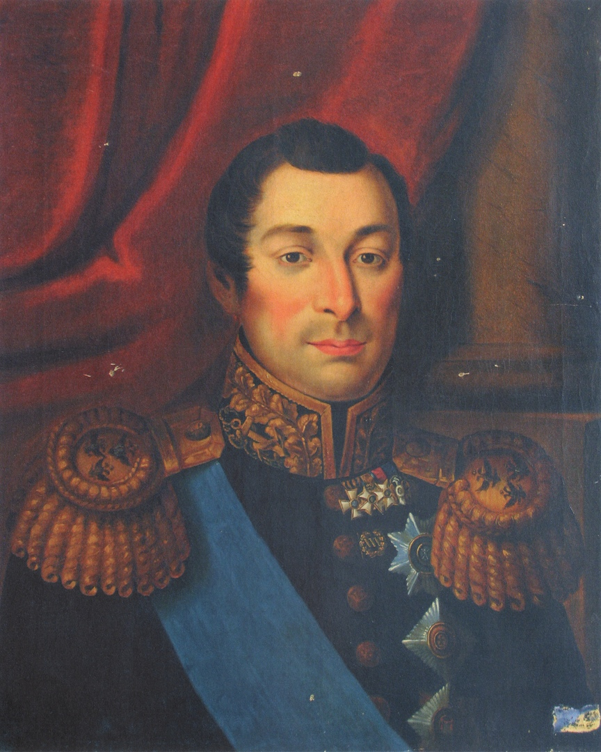 de Traversay Ivan Ivanovich